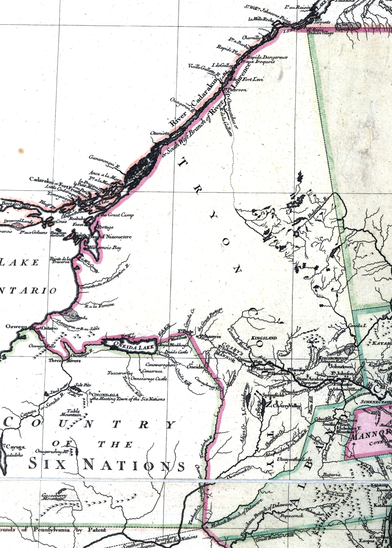 Tryon County, from a map of the provinces of New York and New Jersey